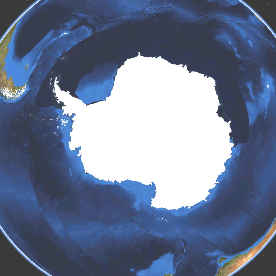 Satellite map of Antarctica. Land terrain and bathymetry (ocean-floor topography).